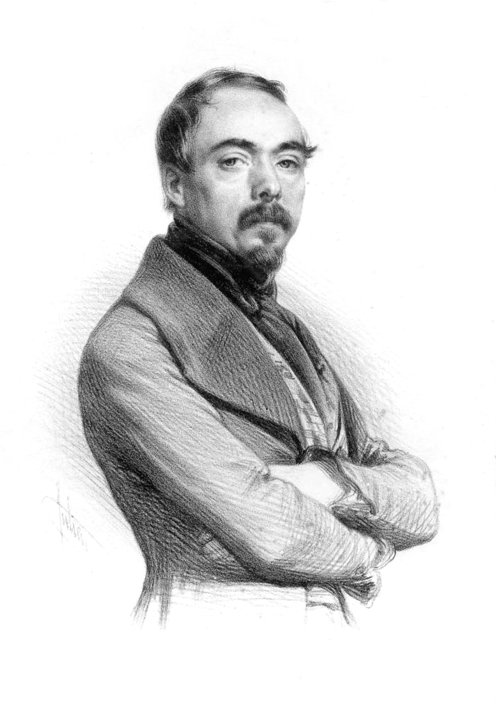 Bernard-Romain Julien, Antonin Moine (c. 1838), litography, Archives de la Loire.